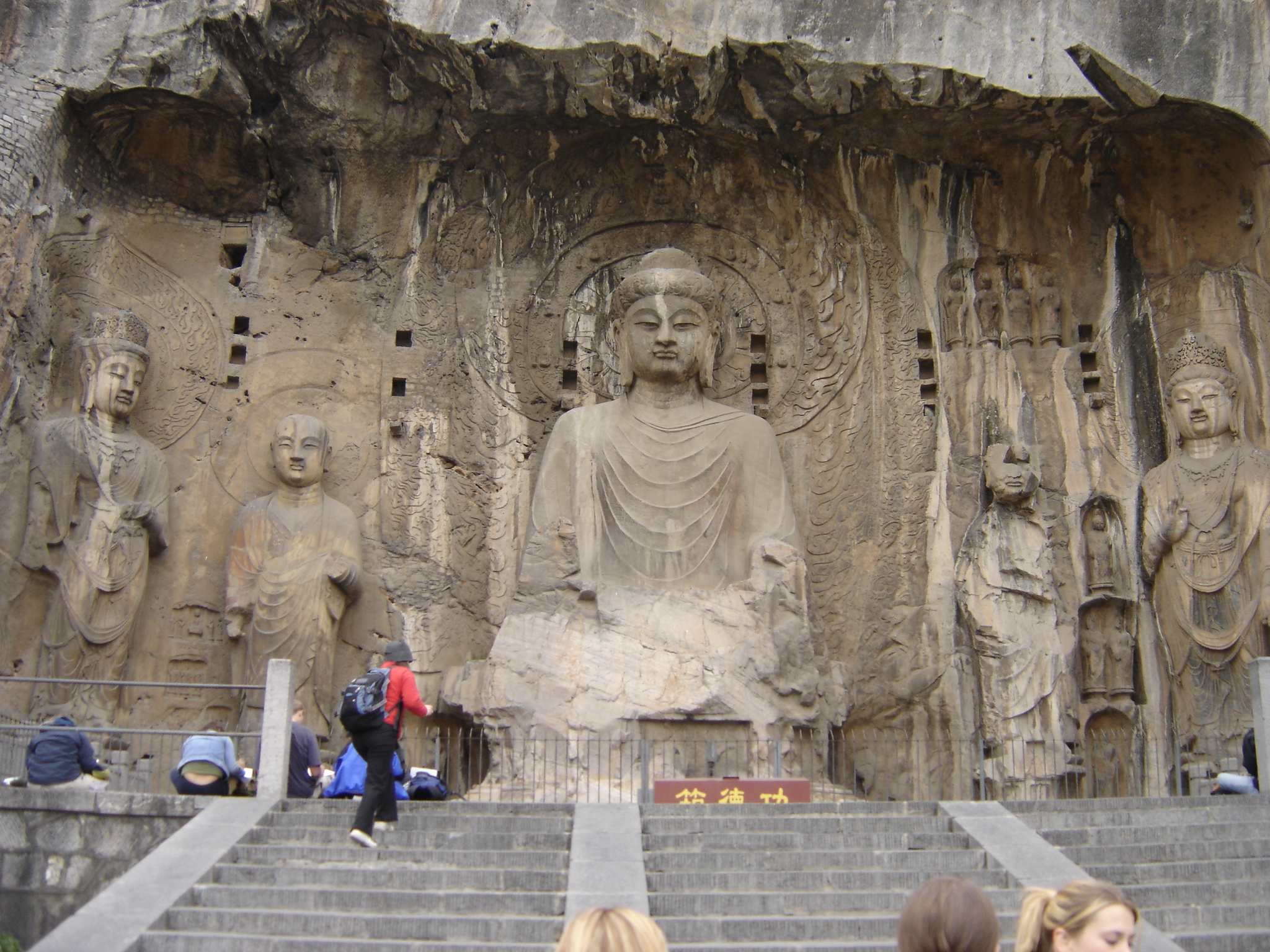 Main grottoes at Longmen in Luoyang, Henan, China, depicting boddhisatvas.